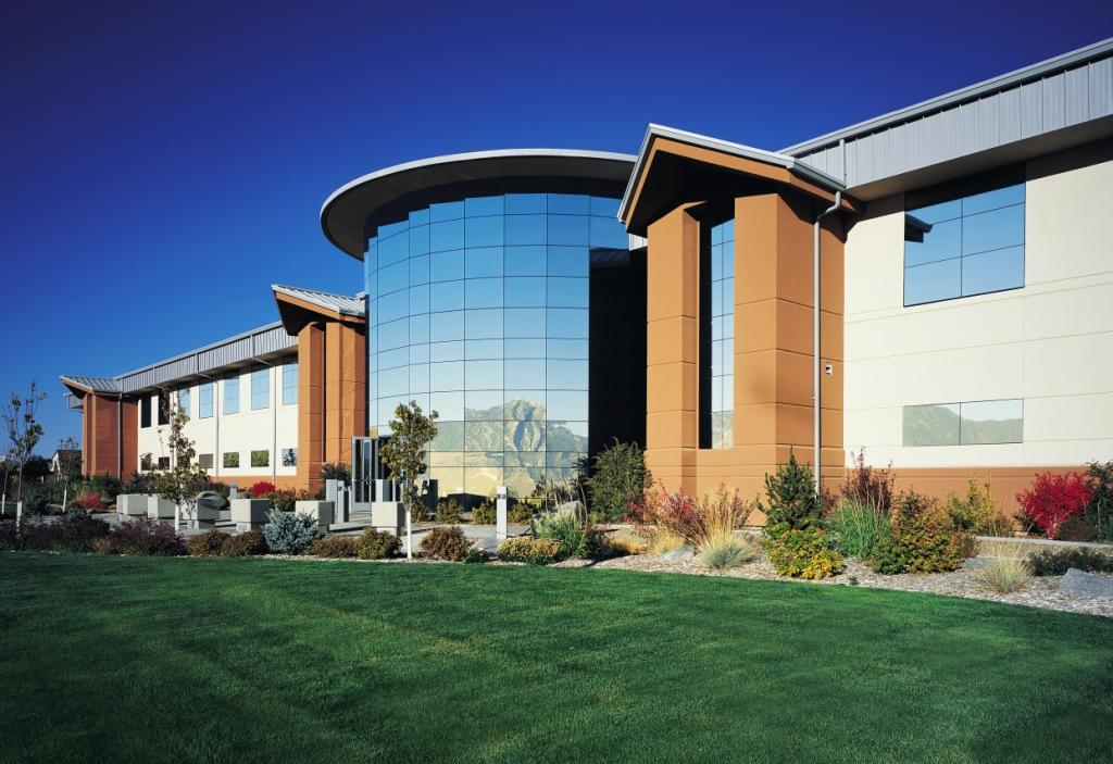 The marketing department at GE's Bently Nevada division was contacted regarding this image. It was originally from a press kit issued in 2000 to advertise the company's new building and they had no objection to widespread use of the image.